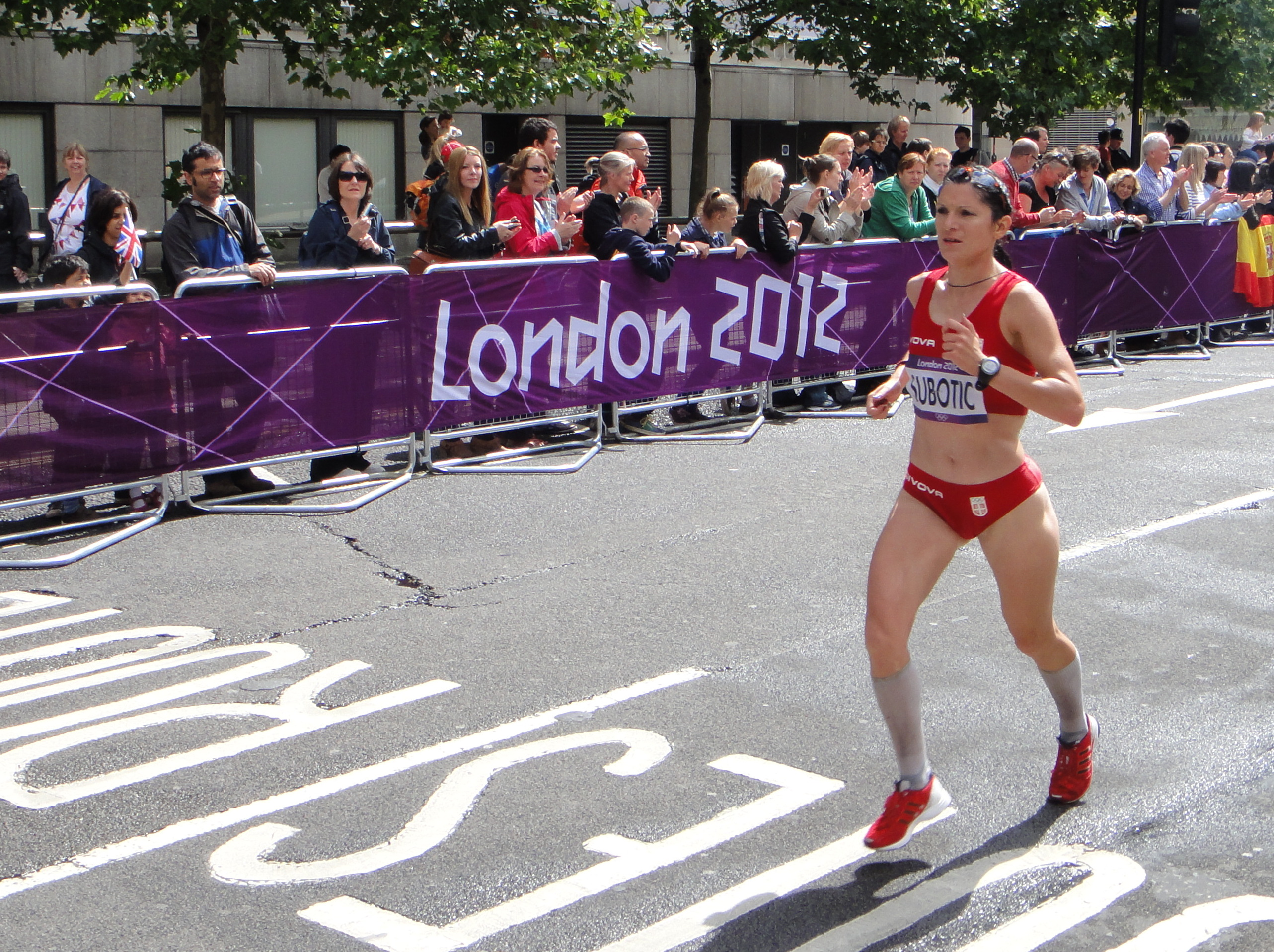 Ana Subotic (Serbia) London 2012 Women's Marathon